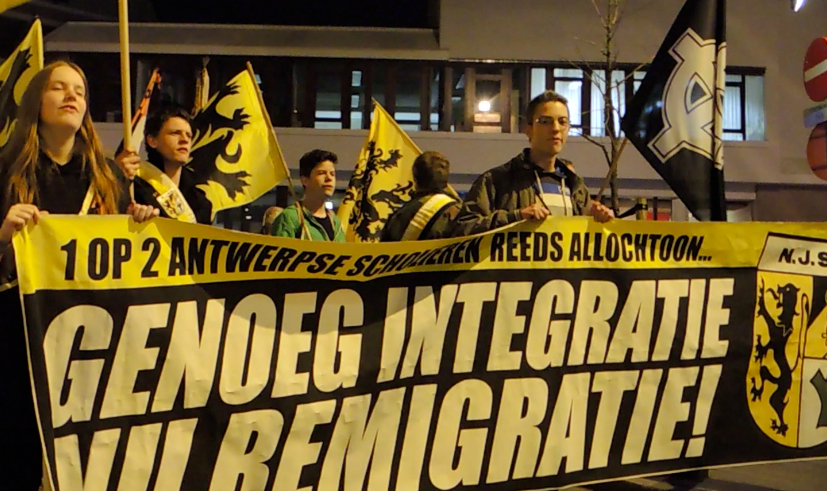 Members from the NJSV (Nationalist Young Student Union, Flanders) at a demonstration.